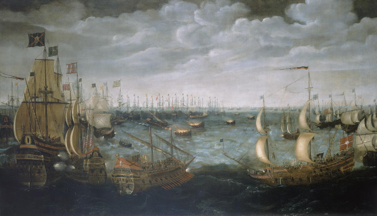 Contemporary Flemish interpretation of the launching of English fire-ships against the Spanish Armada, 7 August 1588